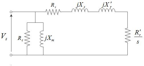 Induction motor simplified equivalent motor as often used in circle diagrams.